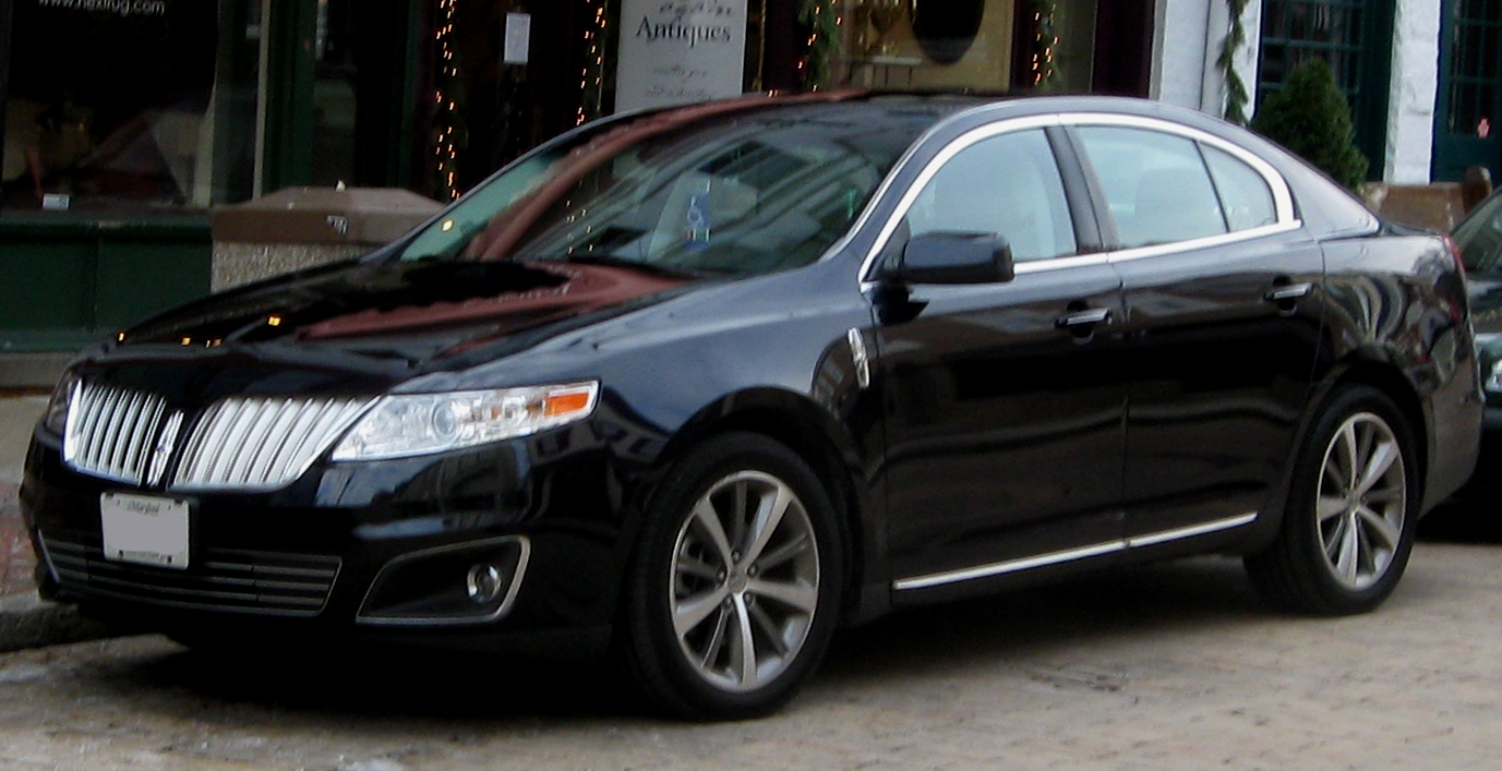 2009-2010 Lincoln MKS photographed in Annapolis, Maryland, USA.